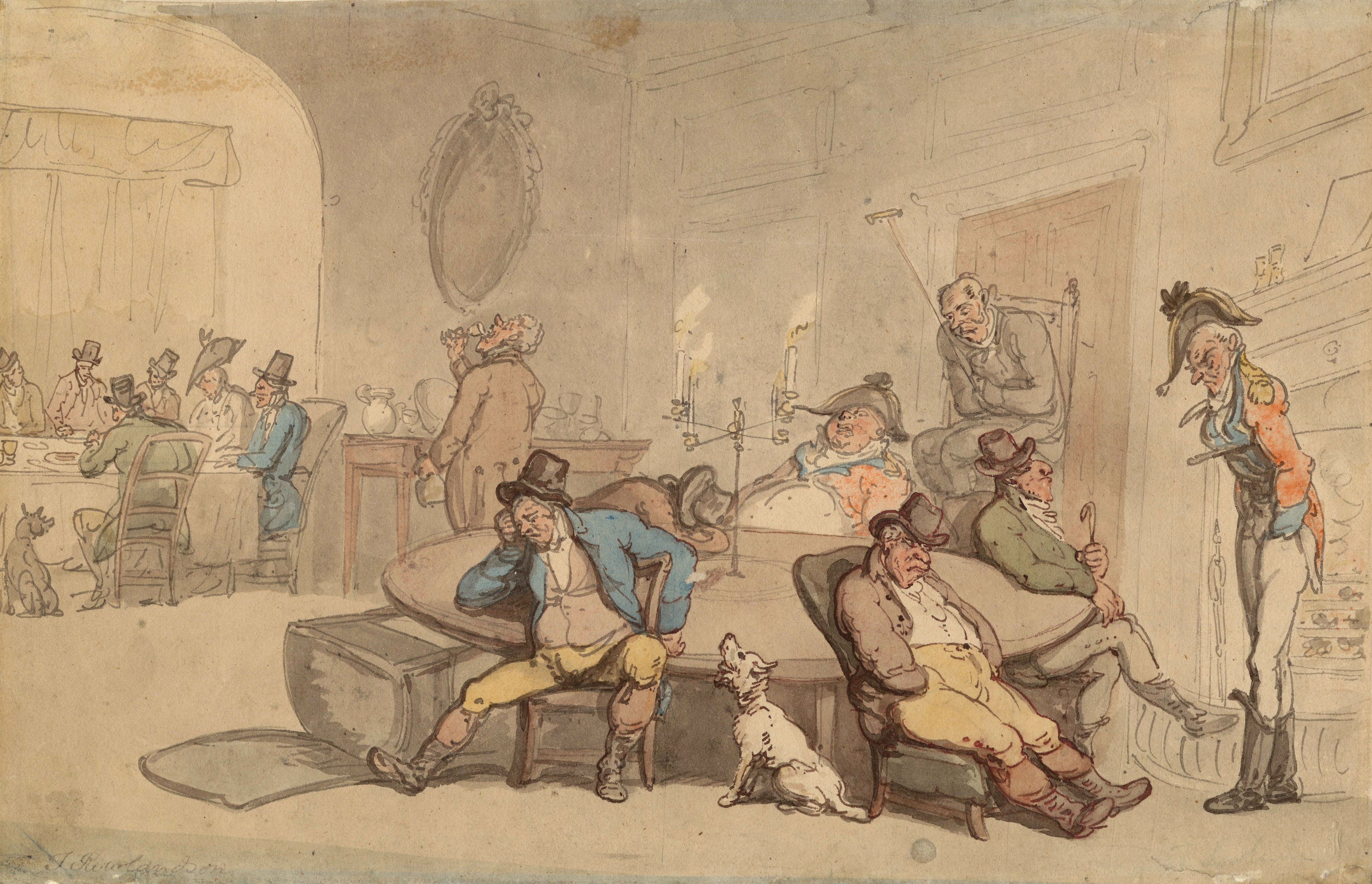 Original watercolor caricature signed by Rowlandson; scene in club lounge, showing members and attendants sitting, dozing, eating etc., including 2 army officers and dog